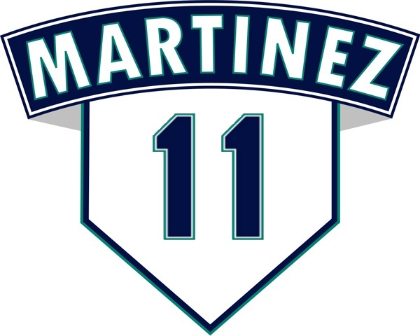 Edgar Martinez's retired number 11 as displayed at Safeco Field.